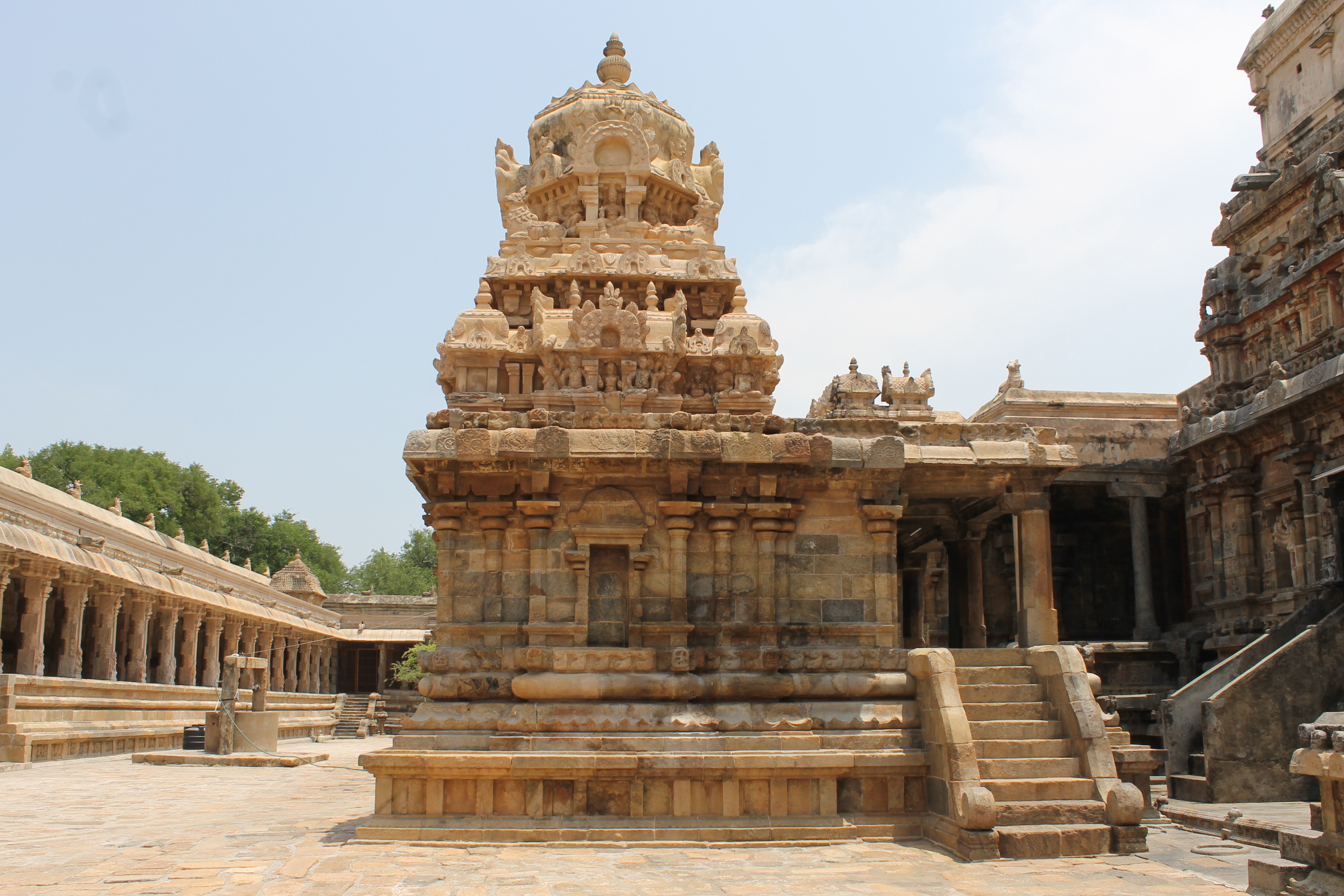 "A arcitecture of World Heritage Monument Airavatesvara Temple" Location: Chatram, Darasuram, near Kumbakonam, Thanjavur District, Tamil Nadu, India.